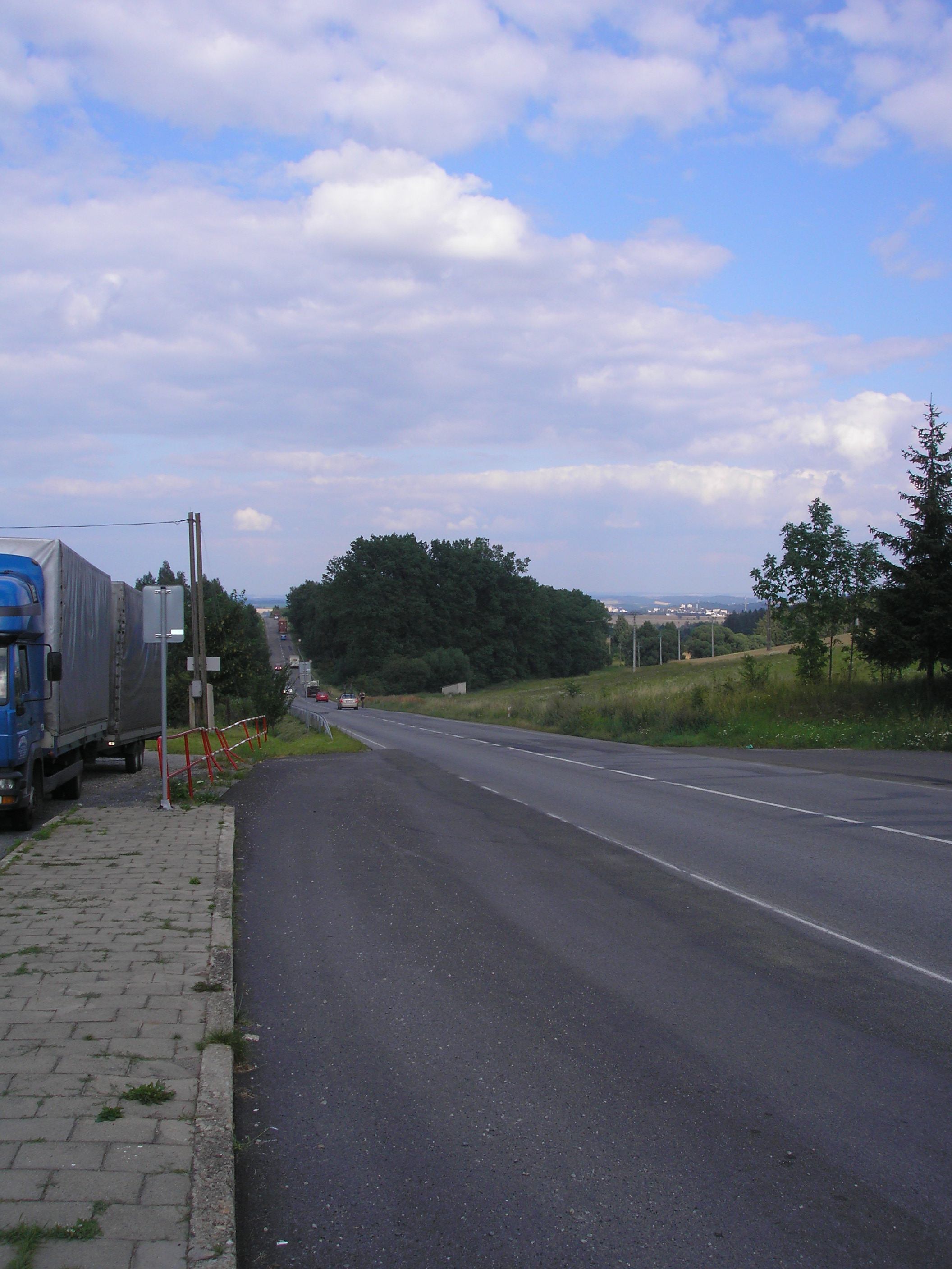 Road I/23 in Markvartice near Třebíč in the Czech republic